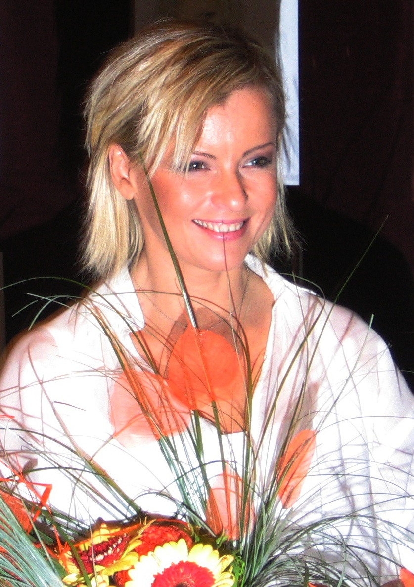 Iveta Bartošová na setkání svého Fanklubu v pražském Mánesu